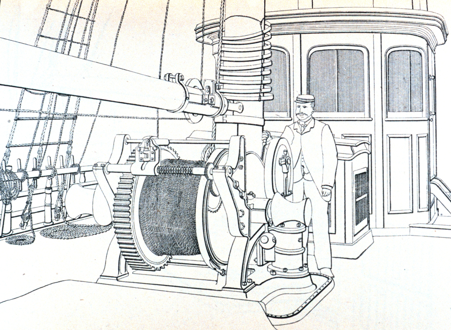 Hoisting and reeling engine on the FISH-HAWK from forward looking aft